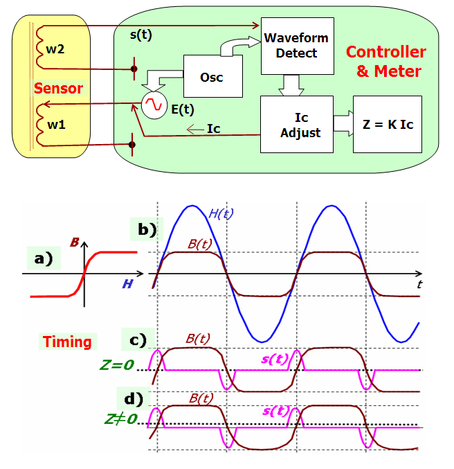 FluxGate Magnetometer Schema